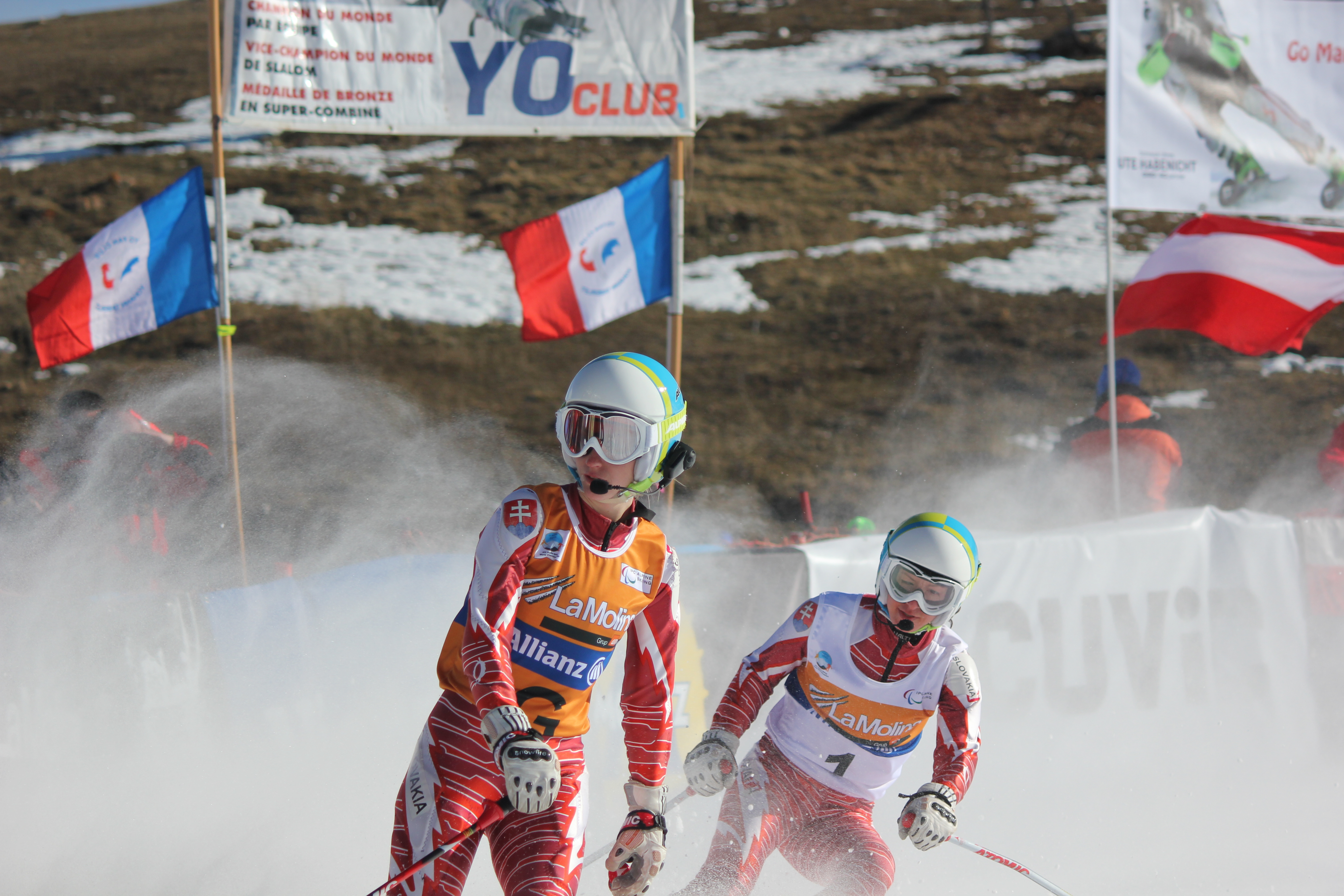 The women's visually impaired Super-G event at the 2013 IPC Alpine World Championships in La Molina, Spain. Henrieta Farkasova and guide Natalia Subtrova.